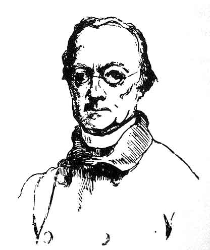 Sketch of 19C. French writer & historian C.E. Brasseur de Bourbourg